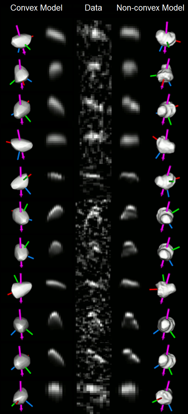 Comparison between the best-fit convex and nonconvex shape models, and the available radar images of (99942) Apophis. The best-fit nonconvex model is bilobed, providing a better fit to the data.